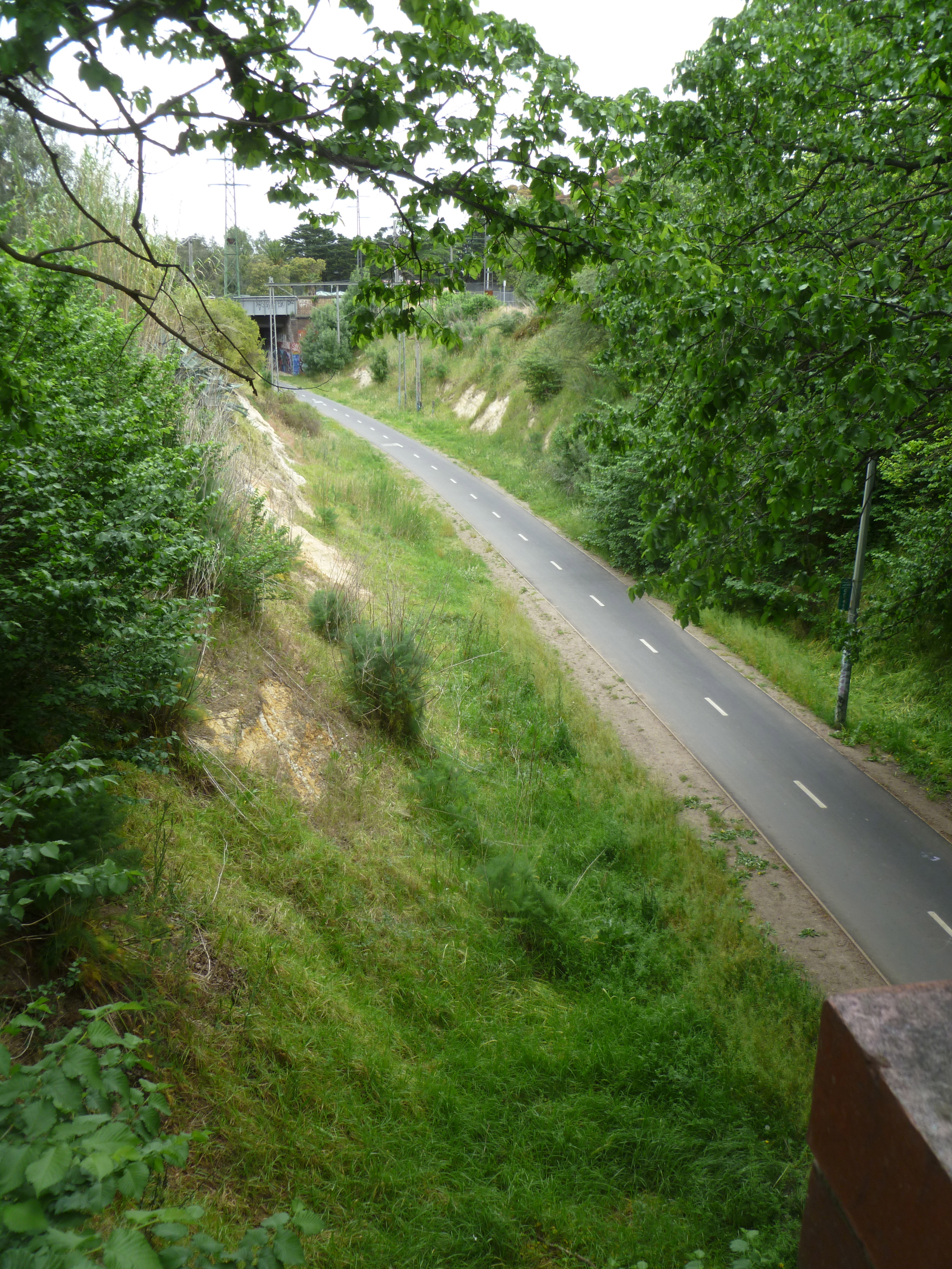 Photograph of now disused Inner Circle Railway in Parkville, Melbourne, 2012